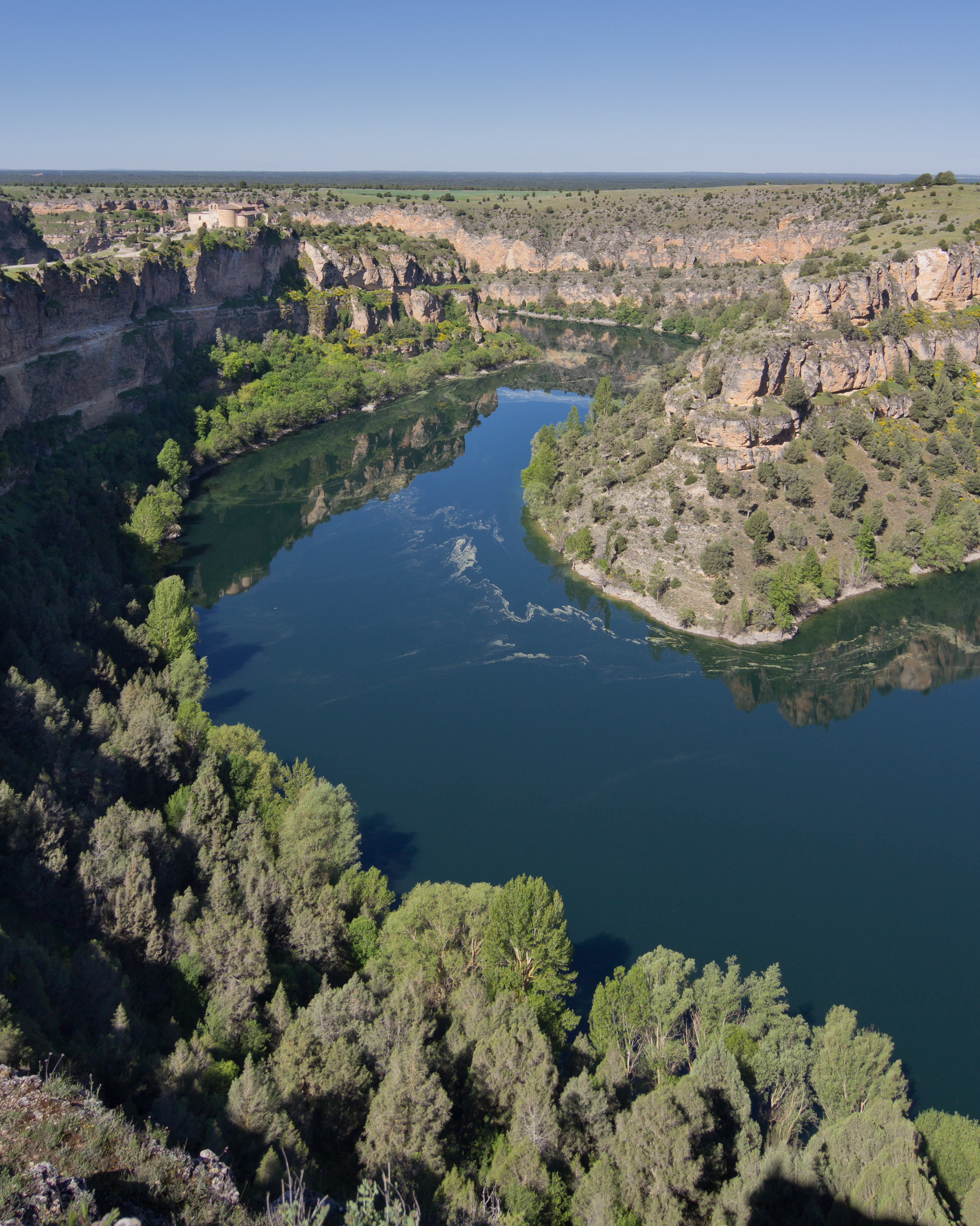 Canyon of Duratón River, Segovia, Castile and León, Spain. This is a photography of a Special Area of Conservation in Spain with the ID: ES0000115. Natura2000 entry, EEA entry